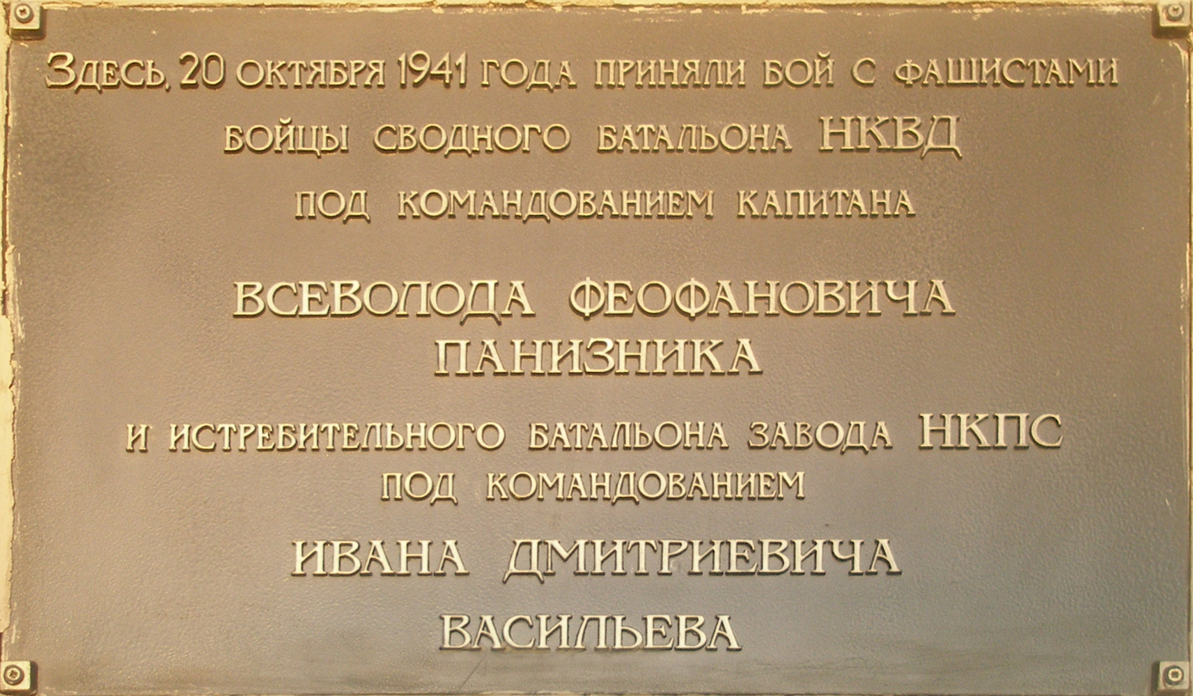 Plaque on the Cherepet station building, Tula Oblast